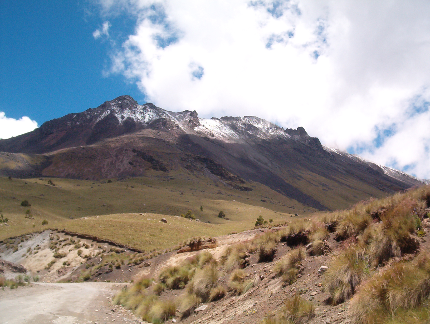 Snow in July on the Mexican volcano, el Nevado de Toluca. Part of the Trans-Mexican Volcanic Belt — a principal volcanic mountain system in central México.